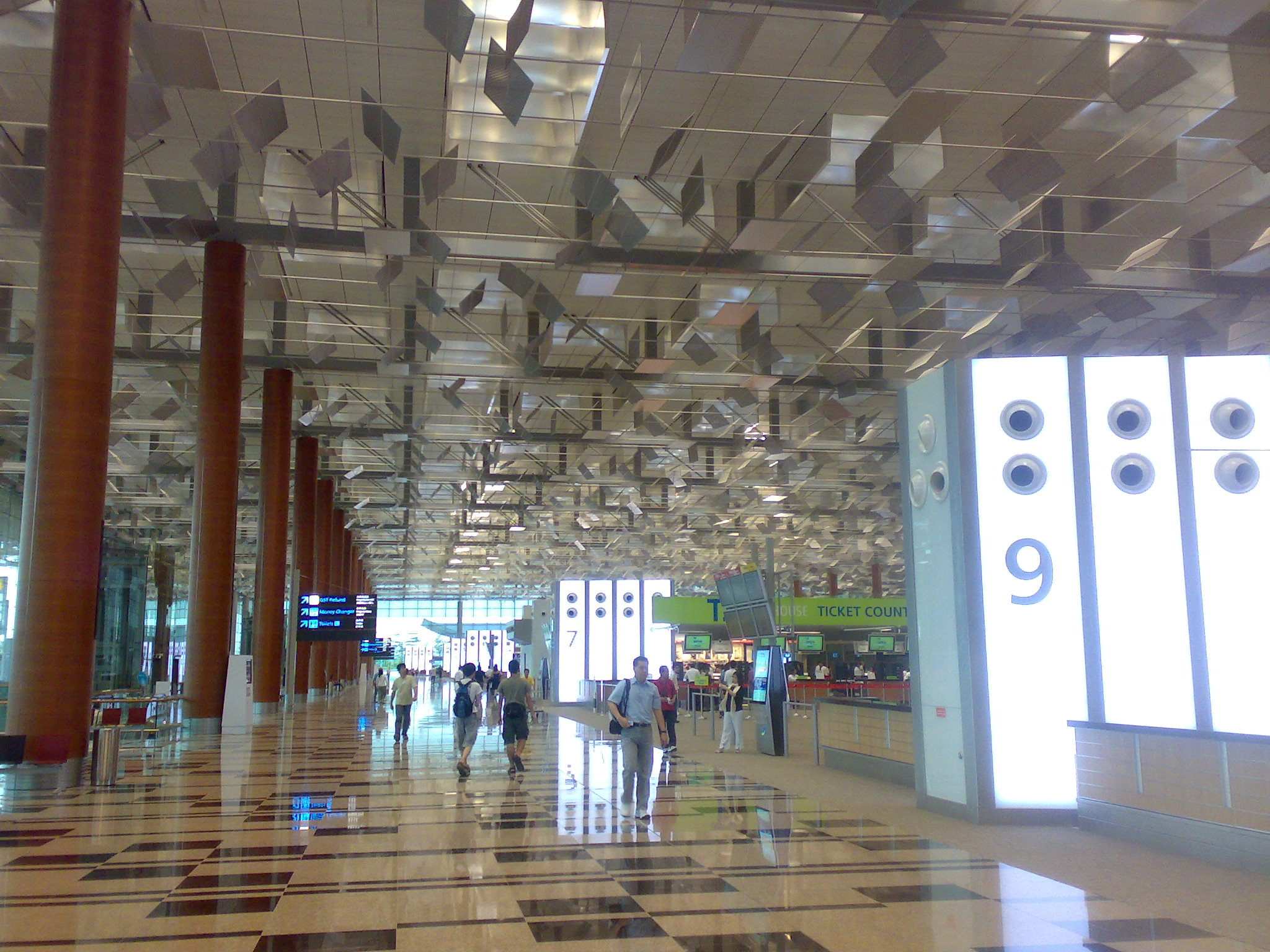 Check-in counters with self-contained air-conditioning units in Changi Airport Terminal 3 by Russianroulette2004